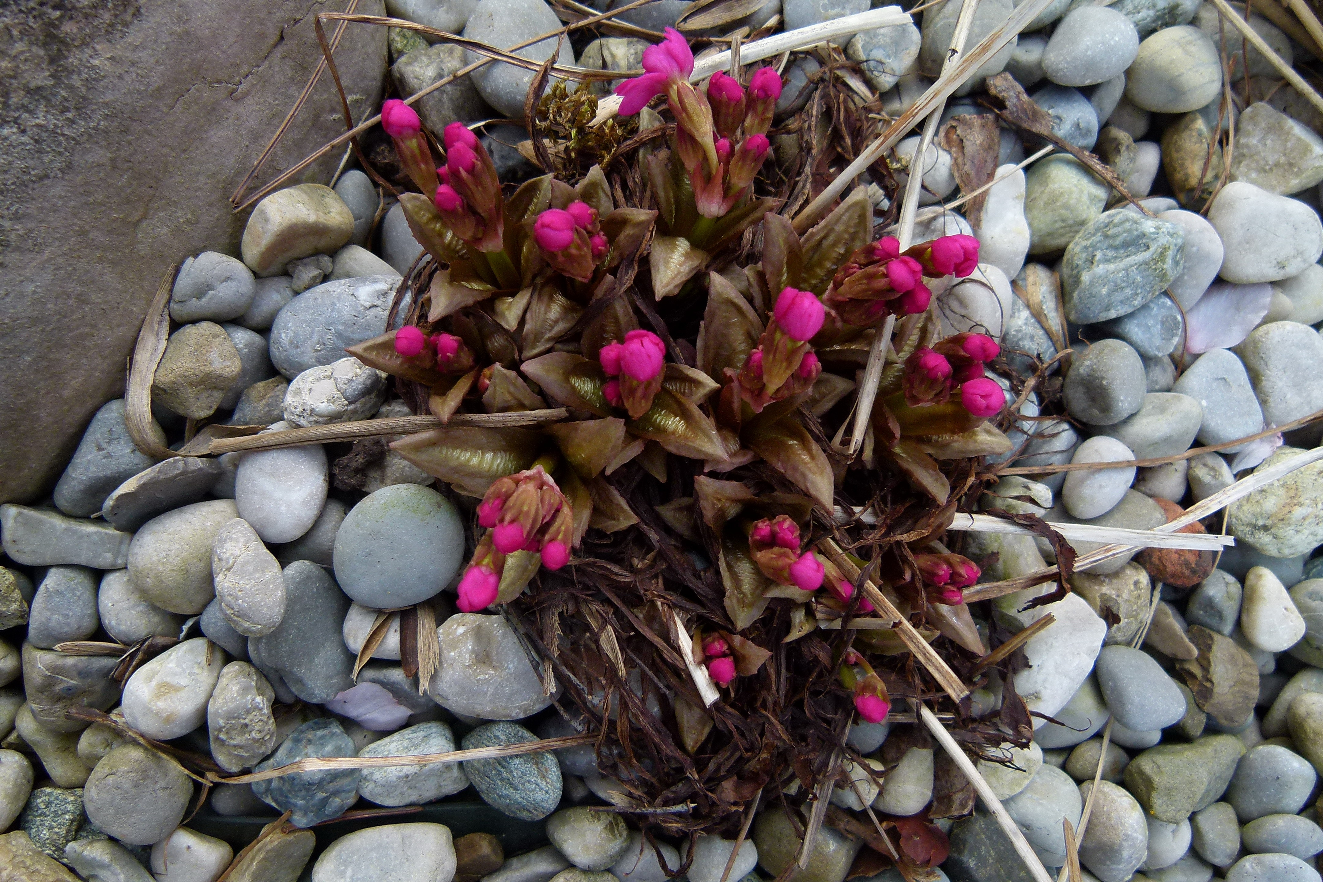 Sprouting of Primula rosea